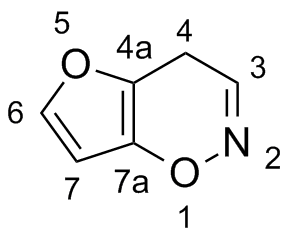 4H-furo[2,3-e]-1,2-oxazine